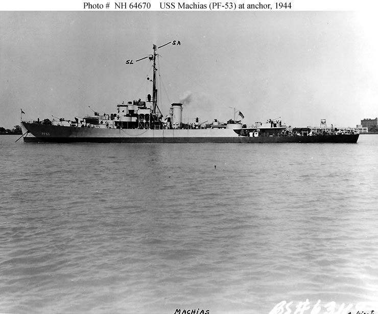 At anchor at the time she was completed, circa March 1944.